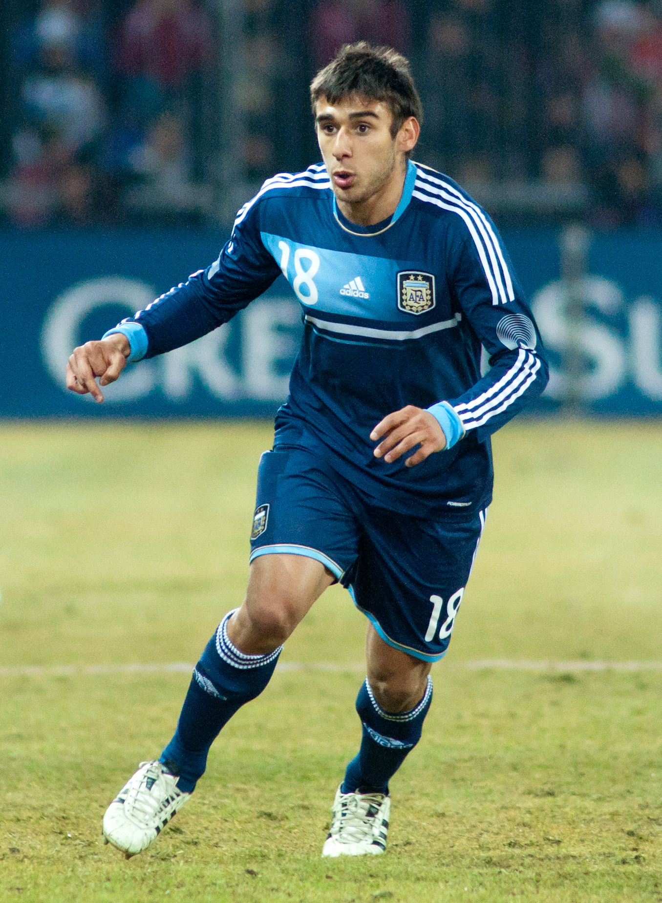 The making of this document was supported by Wikimedia CH. (Submit your project!) For all the files concerned, please see the category Supported by Wikimedia CH. Switzerland vs. Argentina, 29th February 2012